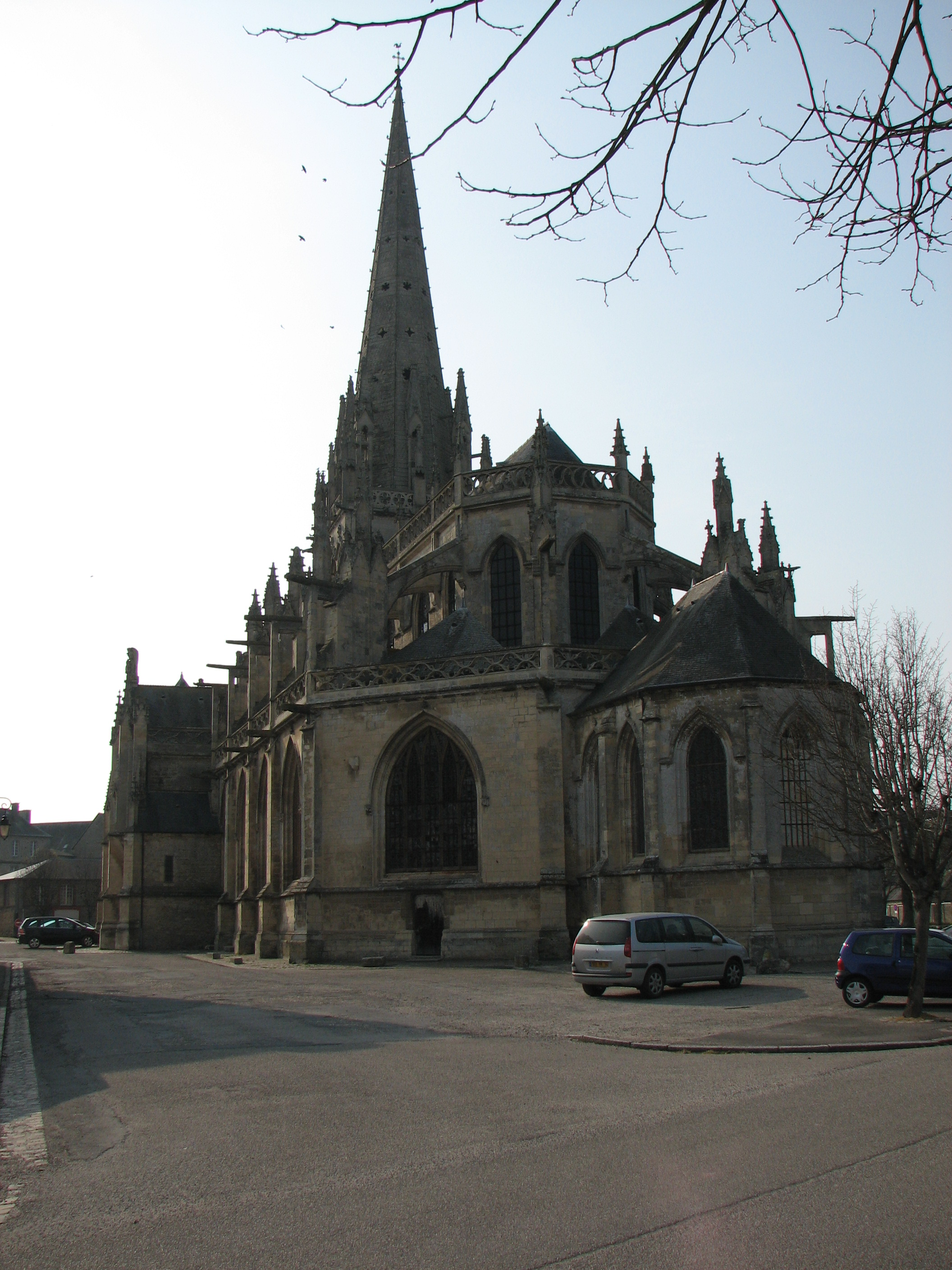 Eglise de Carentan, Normandie Carentan churche, Normandy